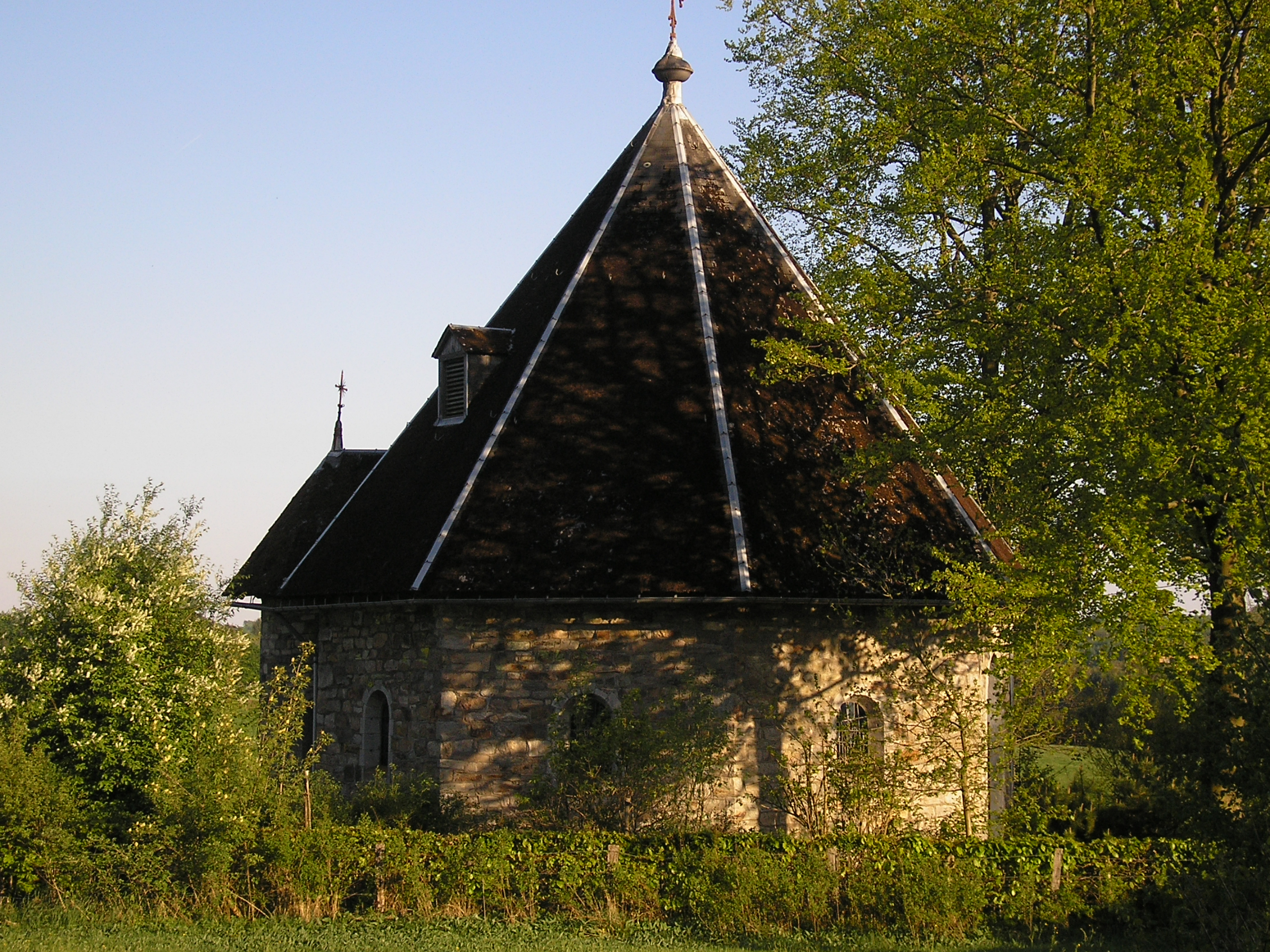 Chapelle de Cheneux, Ovifat, East Belgium